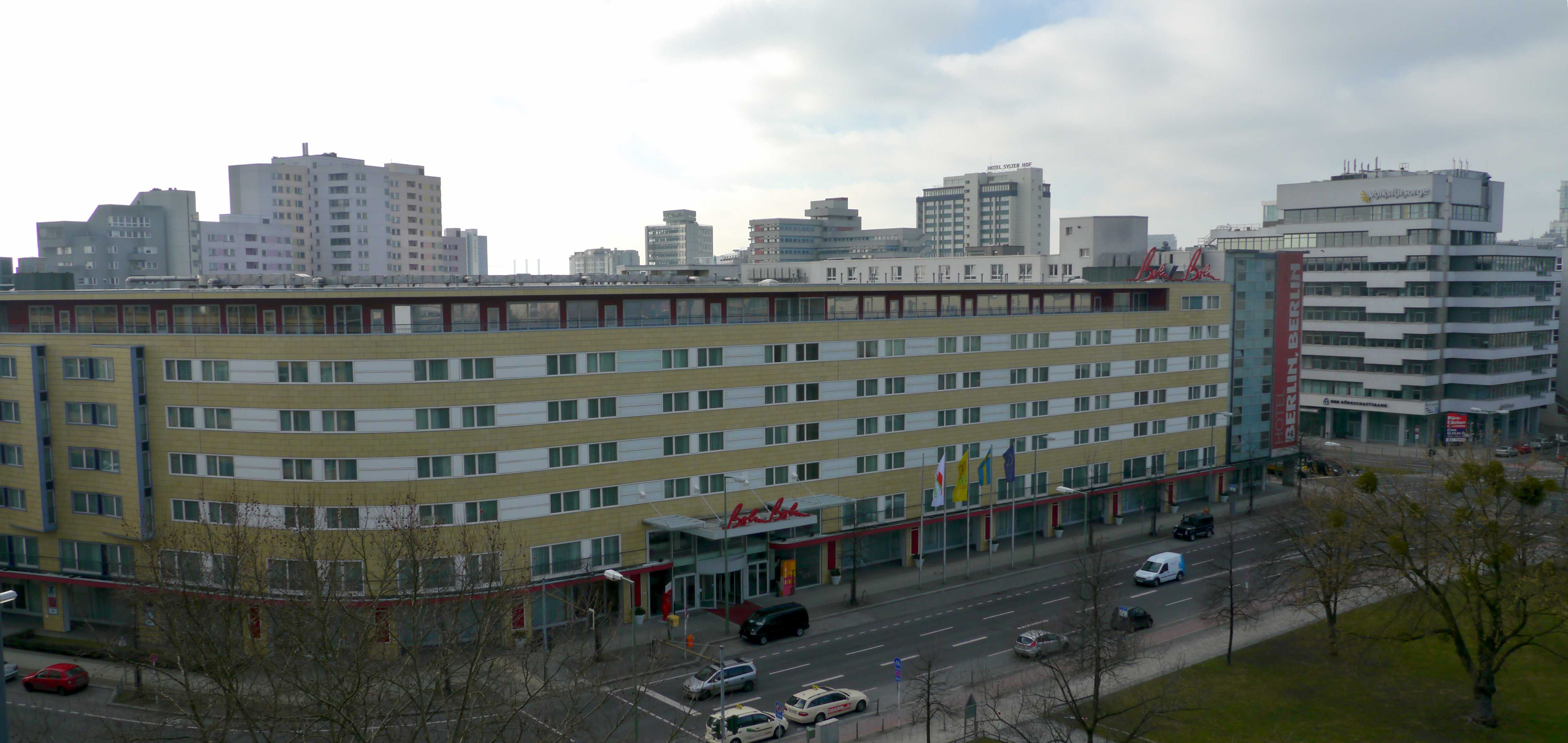 Luetzowplatz, Hotel Berlin Berlin